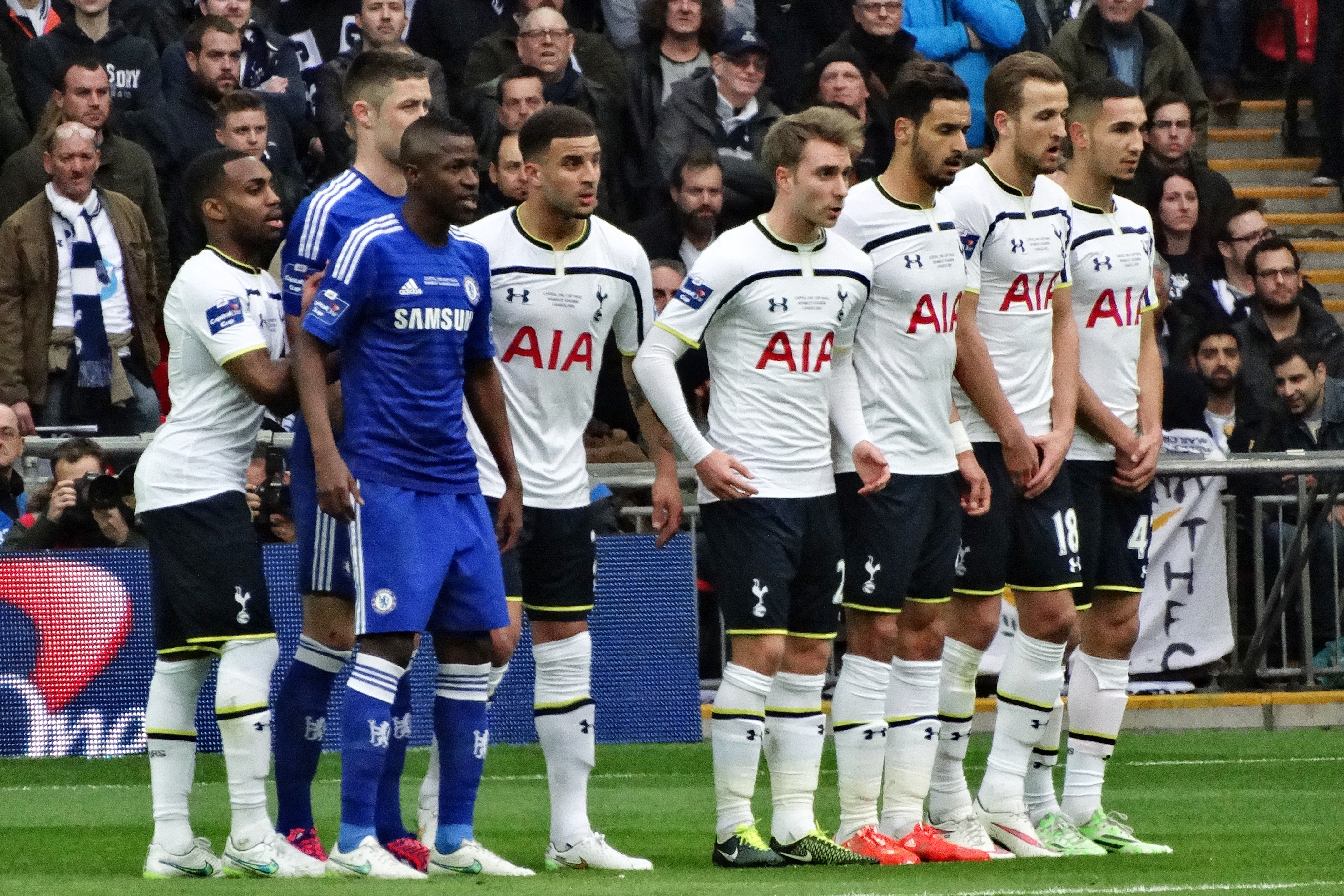 Chelsea 2 Spurs 0 Capital One Cup winners 2015